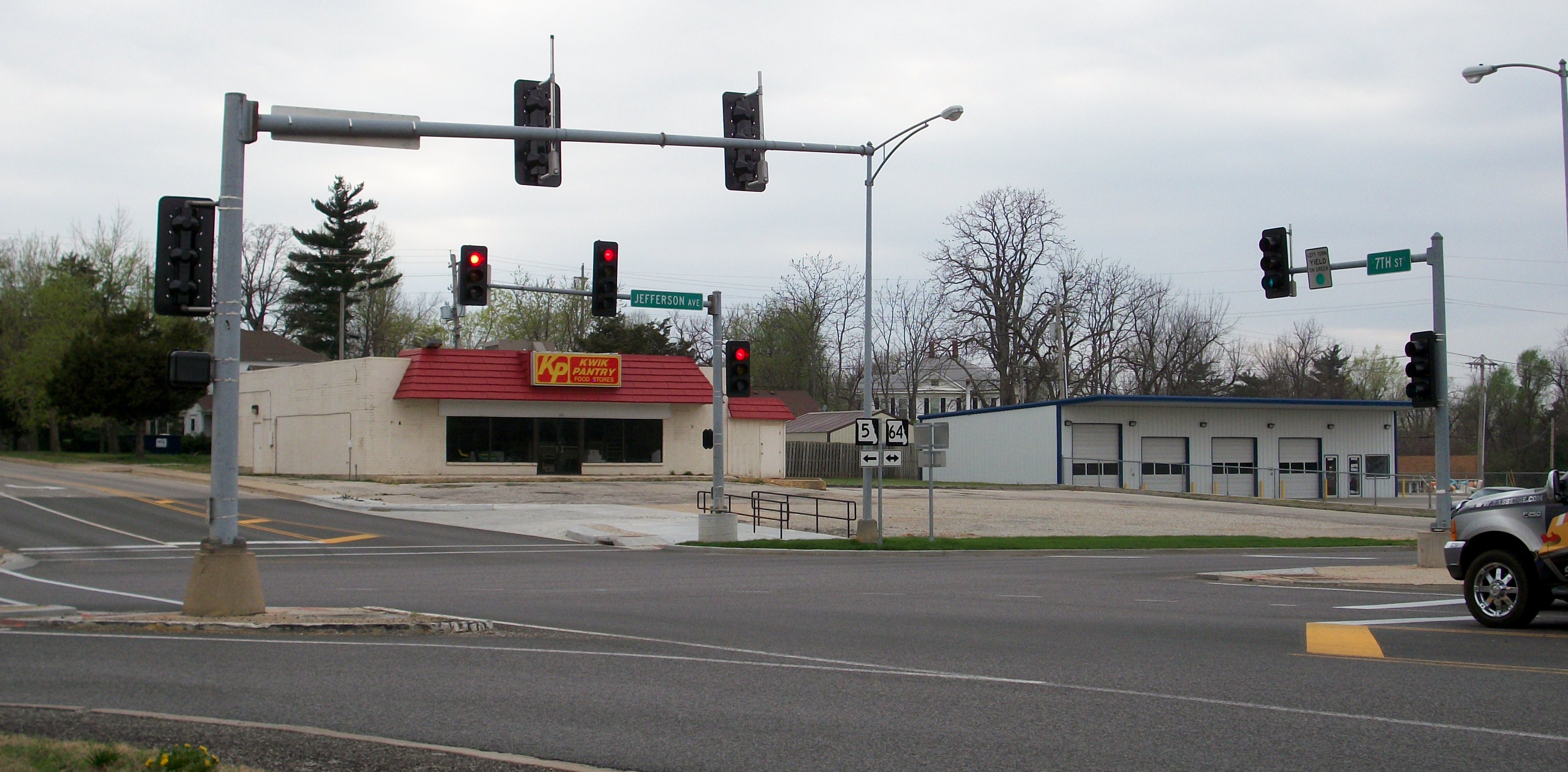 MO 5 southbound turns left and combines with MO 64 (Jefferson Ave) in Lebanon.